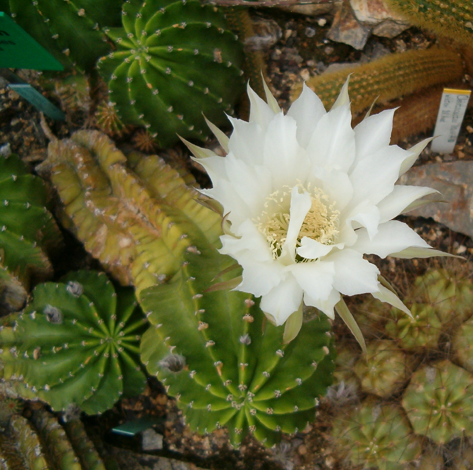 Habitus and Flowers Location: Botanical Gardens Berlin